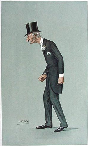 Caricature of Percy Melville Thornton MP. Caption read "Clapham".